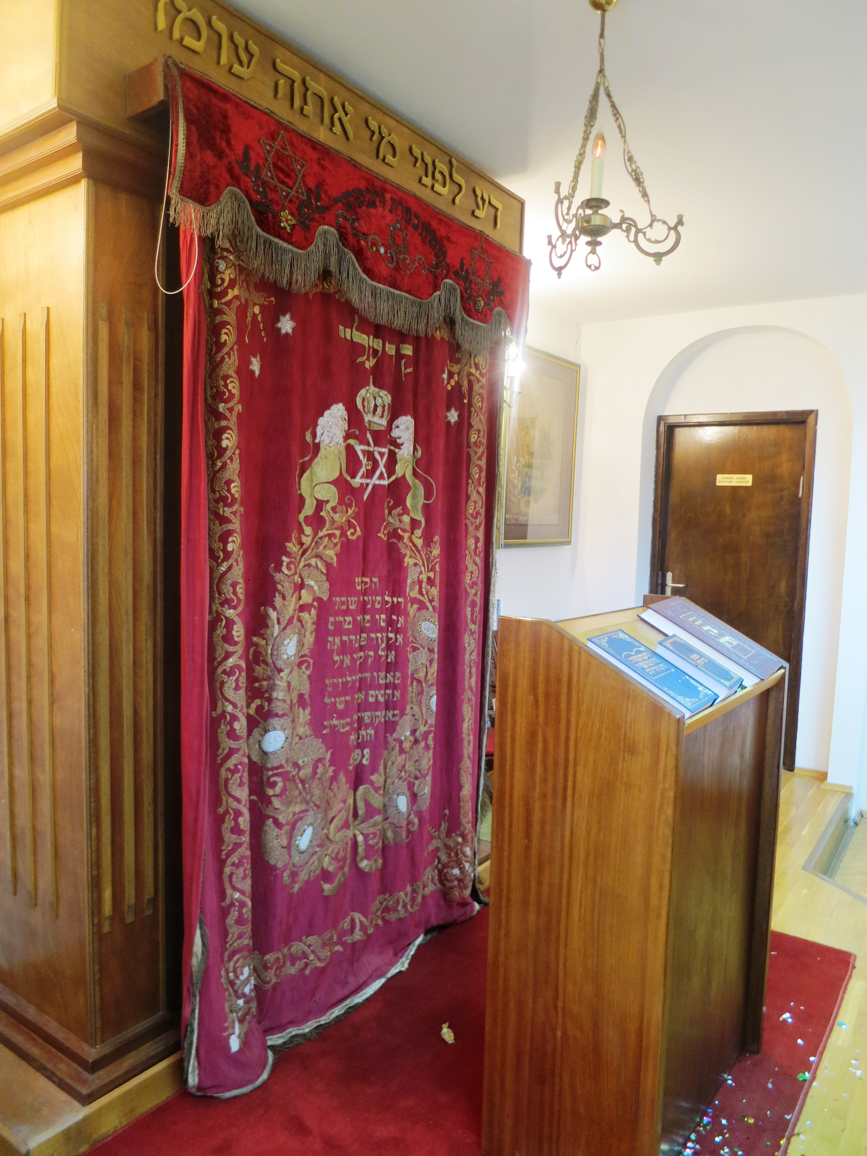 The Parochet covering the Torah Arc of the Beth Jakov synagogue in Skopje, Republic of Macedonia.